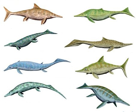 Desde arriba de izquierda a derecha Stenopterygius, Californosaurus, Utatsusaurus, Mixosaurus, Chaohusaurus, Ophthalmosaurus, Cymbospondylus y Shonisaurus.